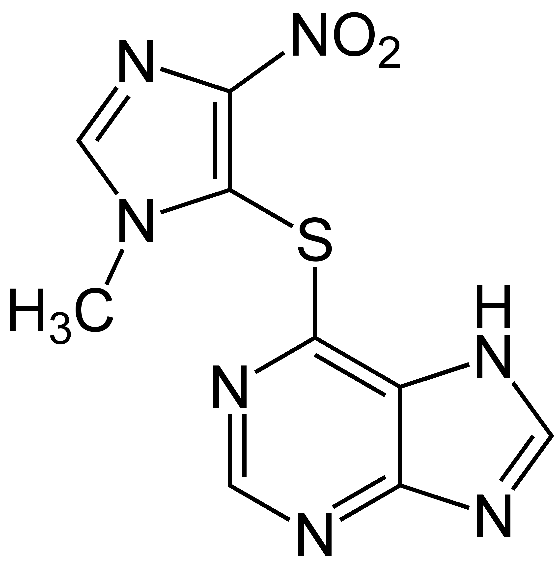 Azathioprine_Structural_Formulae